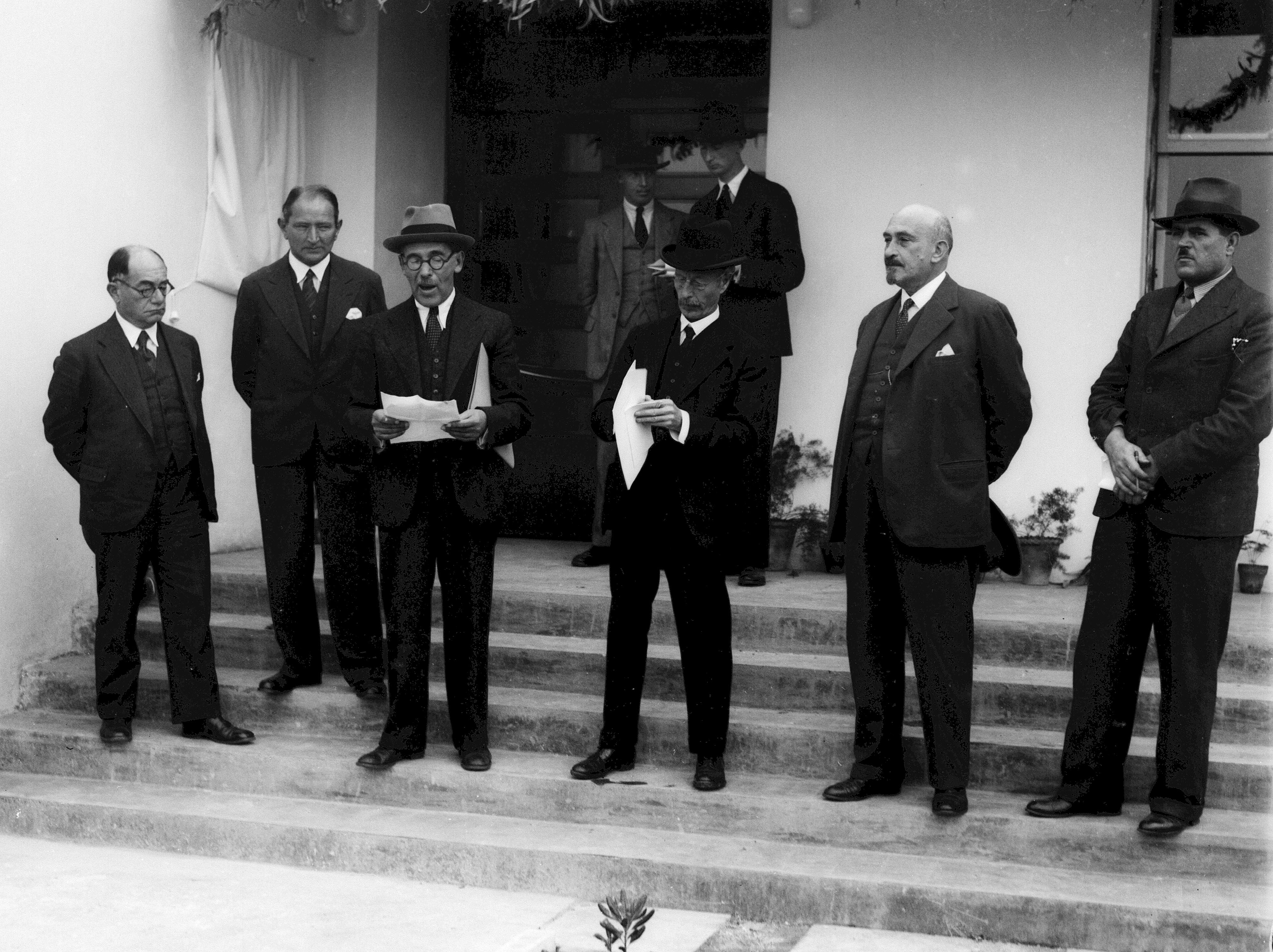 DEDICATION CEREMONY OF SOIL RESEARCH IN REHOVOT. L.TO R. ARTHUR RUPPIN, ITZHAK MAGAZINIK, PROF. VOLCANI, WAUCHOPE, PROF. HAIM WEIZMAN & DISTRICT COMISS. KUPERMAN.